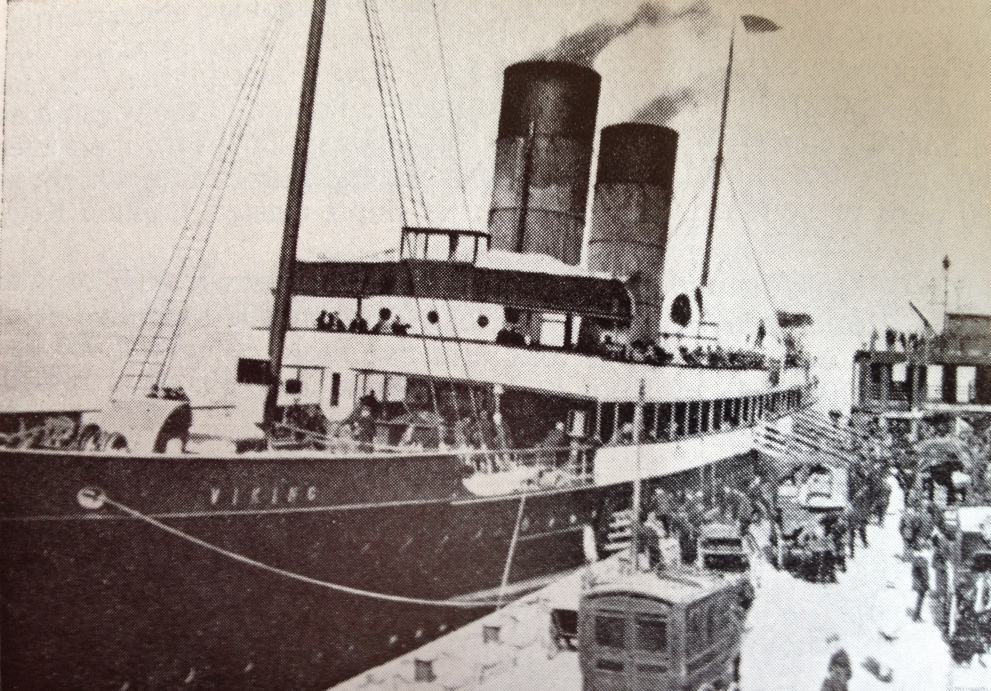 Viking at the Liverpool Landing Stage.